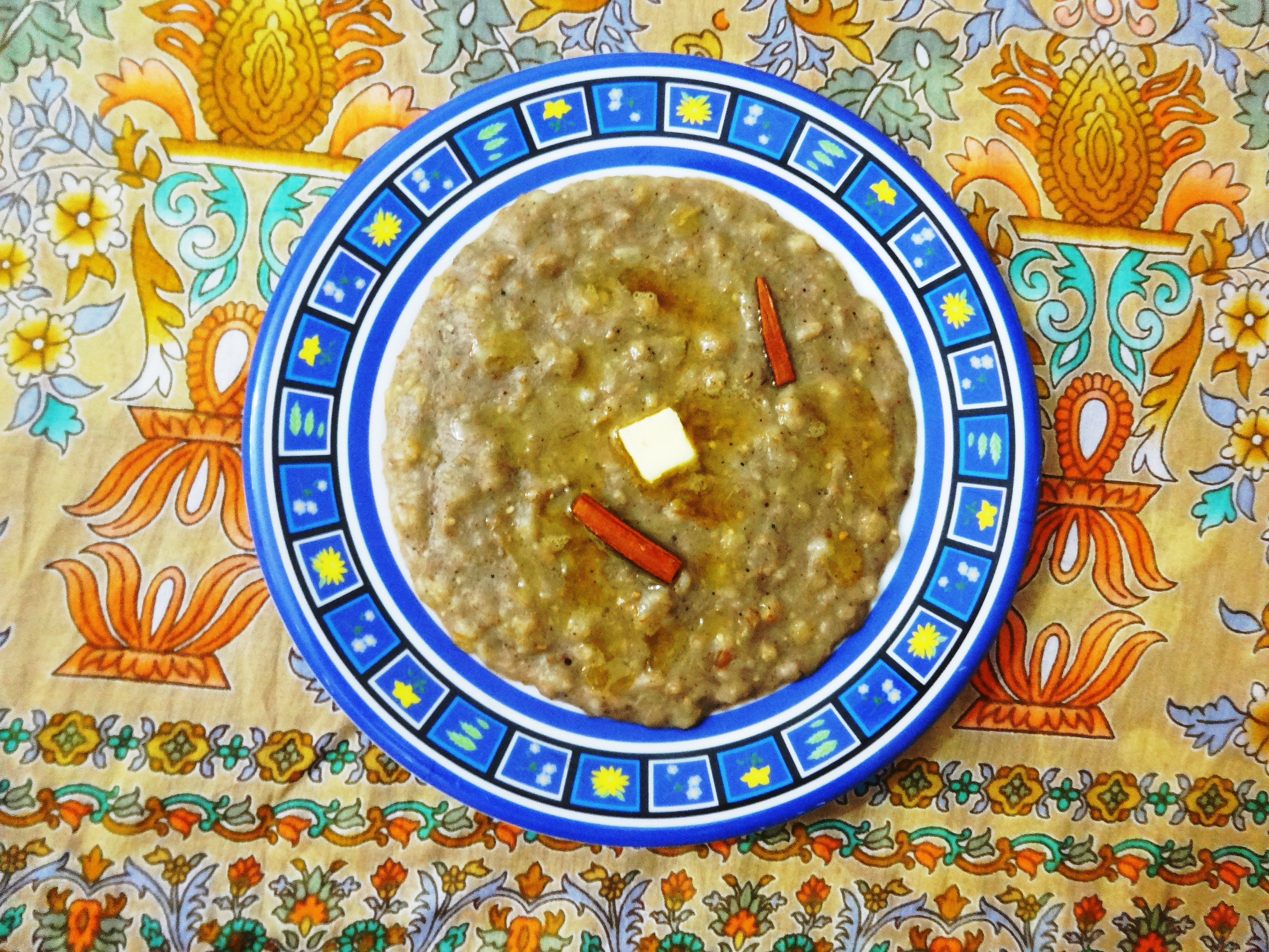 الهريس